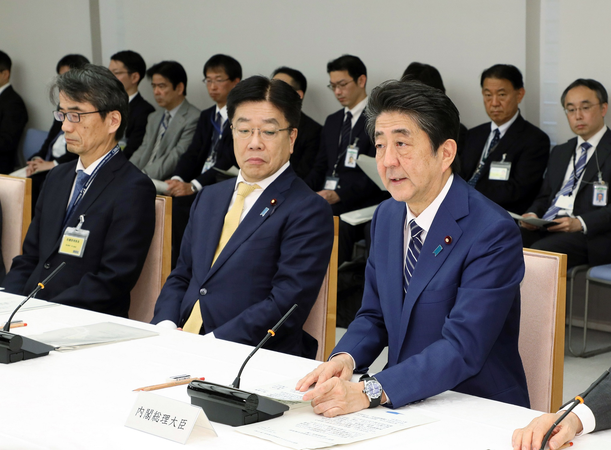 Shinzō Abe, Prime Minister, and Katsunobu Katō, Minister of Health, Labour and Welfare, attended a meeting of the Novel Coronavirus Response Headquarters with Takaji Wakita, Chairman of the Novel Coronavirus Expert Meeting, Novel Coronavirus Response Headquarters, at the Prime Minister's Official Residence in Chiyoda Ward, Tōkyō Metropolis on February 25, 2020.